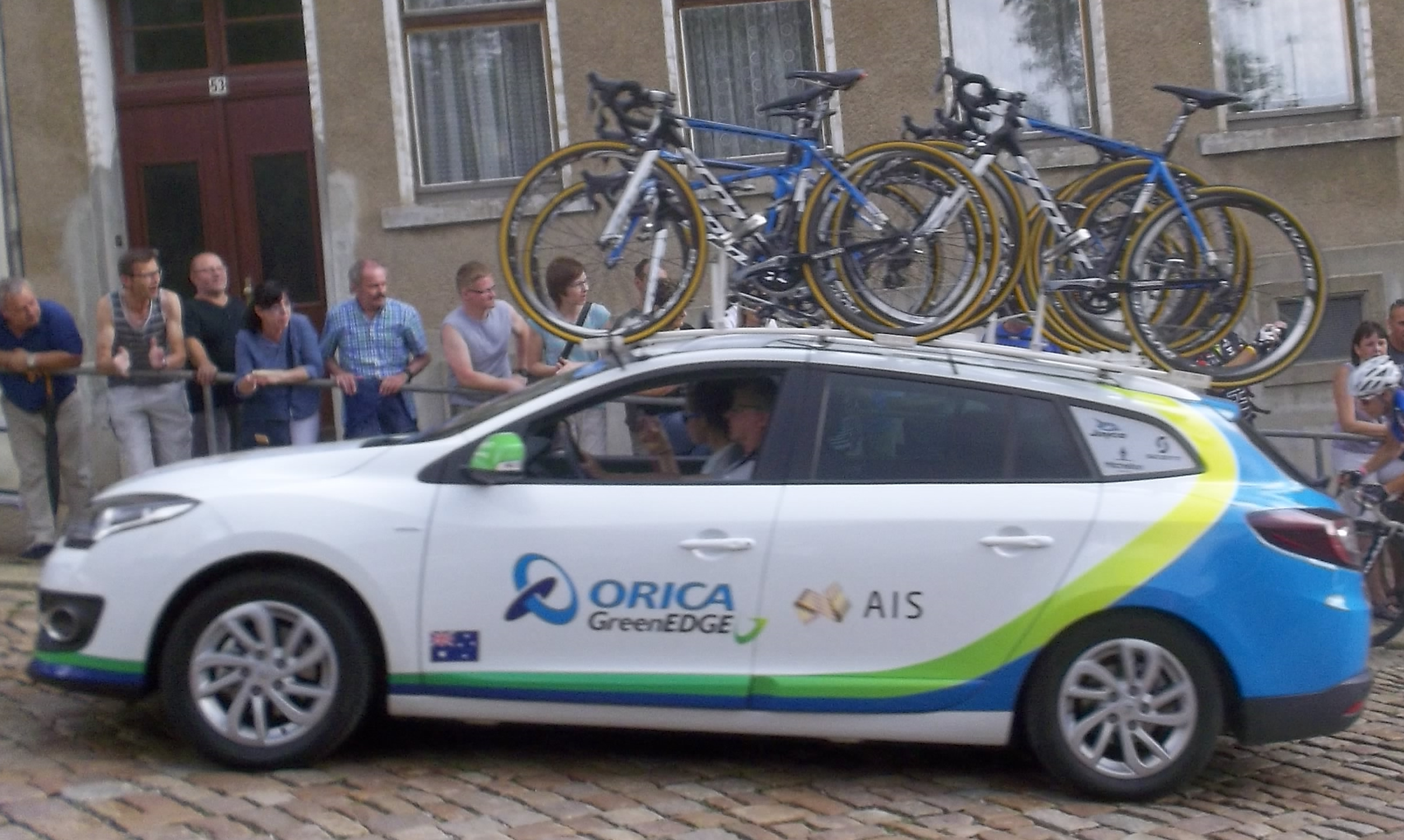 Car of the team Orica-AIS during the Thüringen Rundfahrt 2015